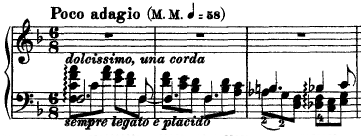 Excerpt from Liszt's Transcendental Etude 3 "Paysage"